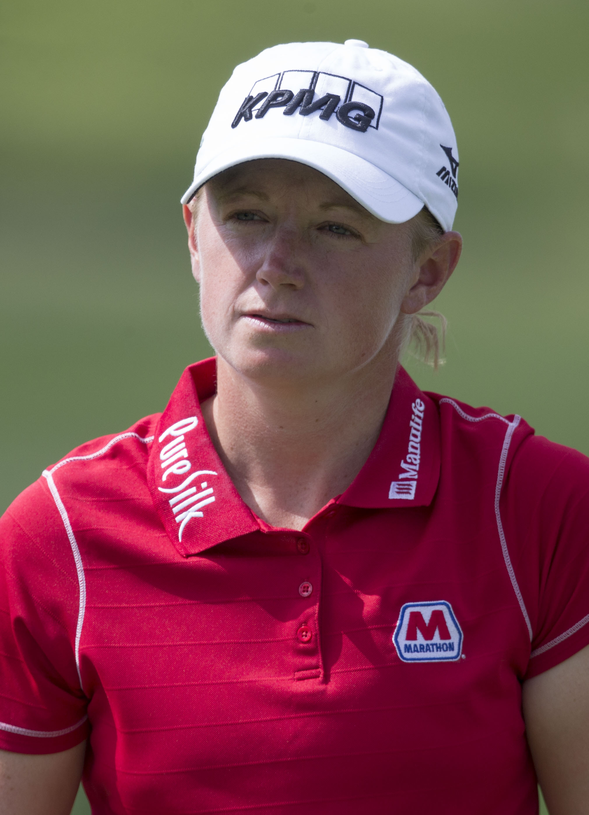 LPGA Kingsmill Practice Round 5/12/15